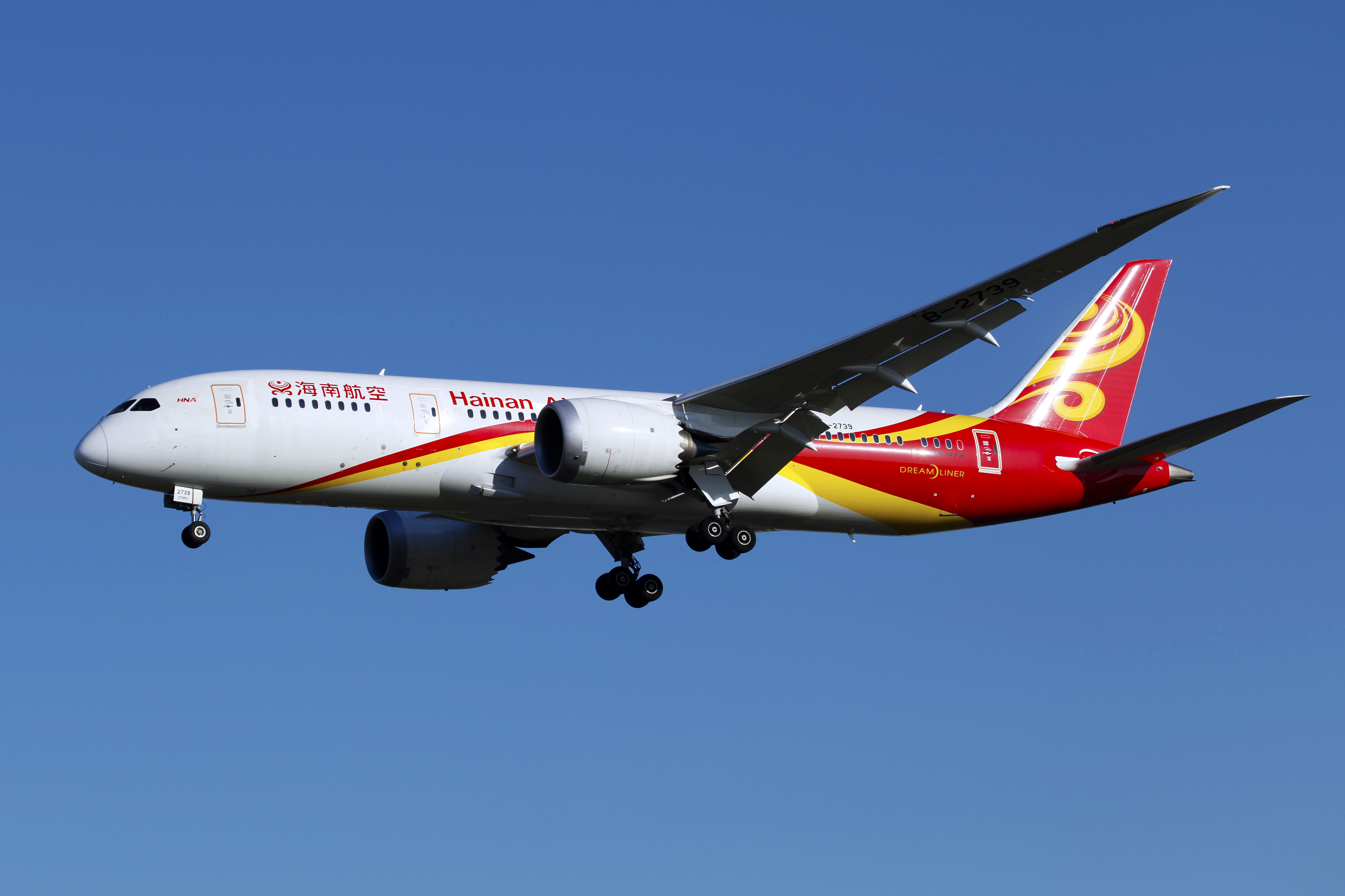 B-2739 | Hainan Airlines | Boeing 787-8 Dreamliner | Beijing Capital International Airport [PEK]